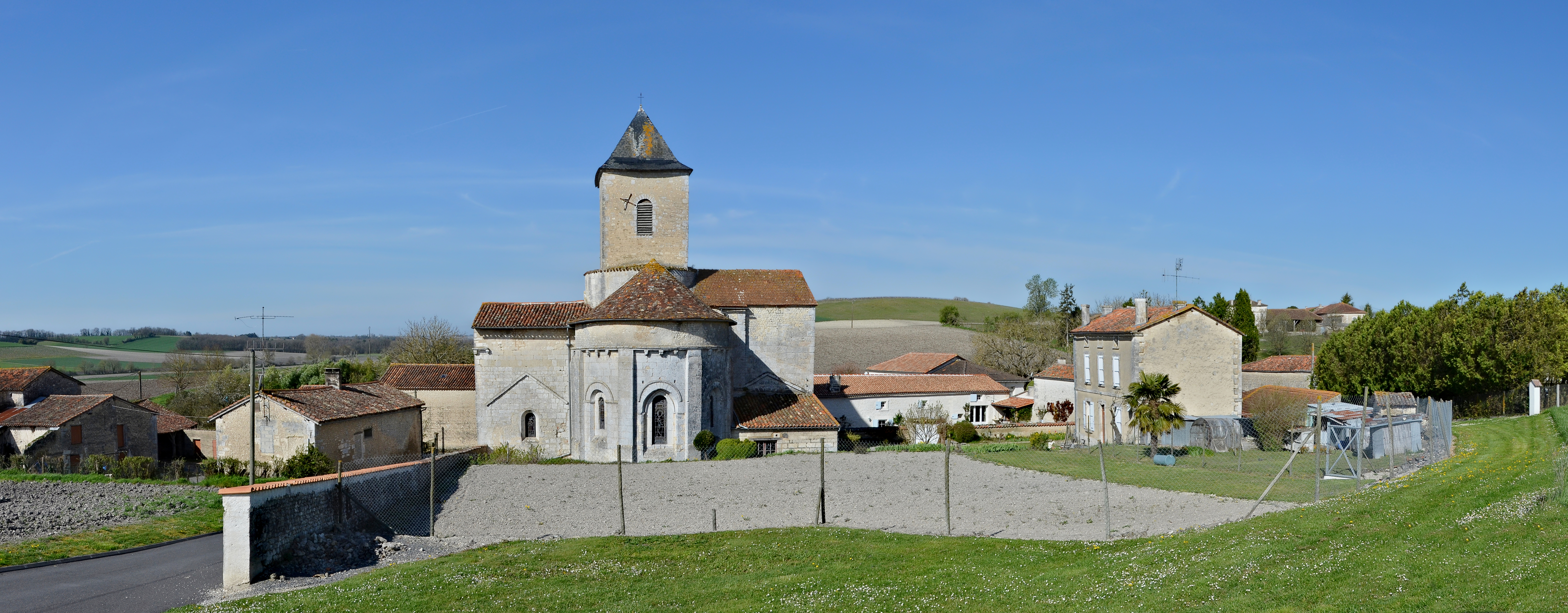 East view of the church (12th century) and roofs of Mainfonds, Charente, France.